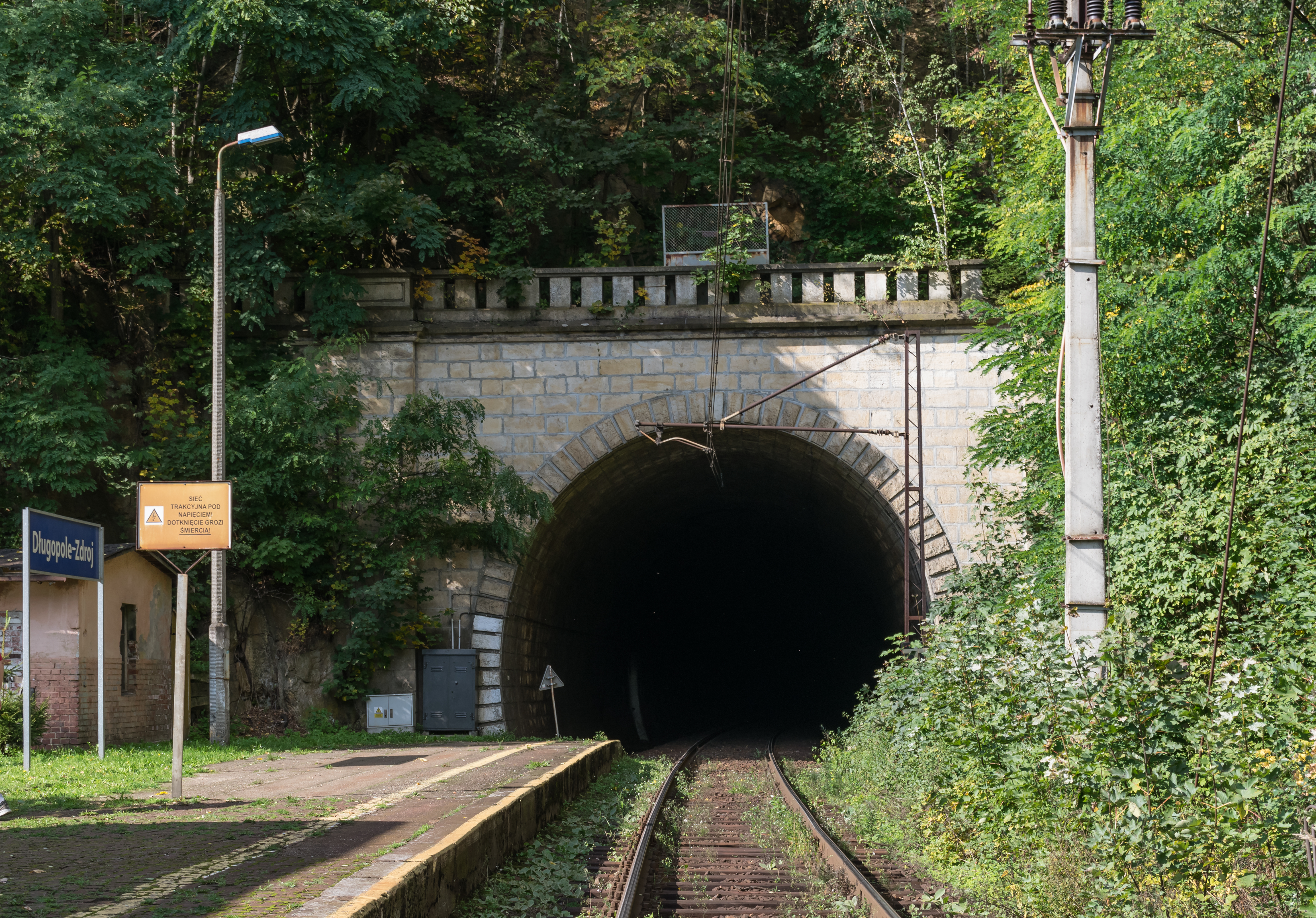 Rail tunnel in Długopole-Zdrój